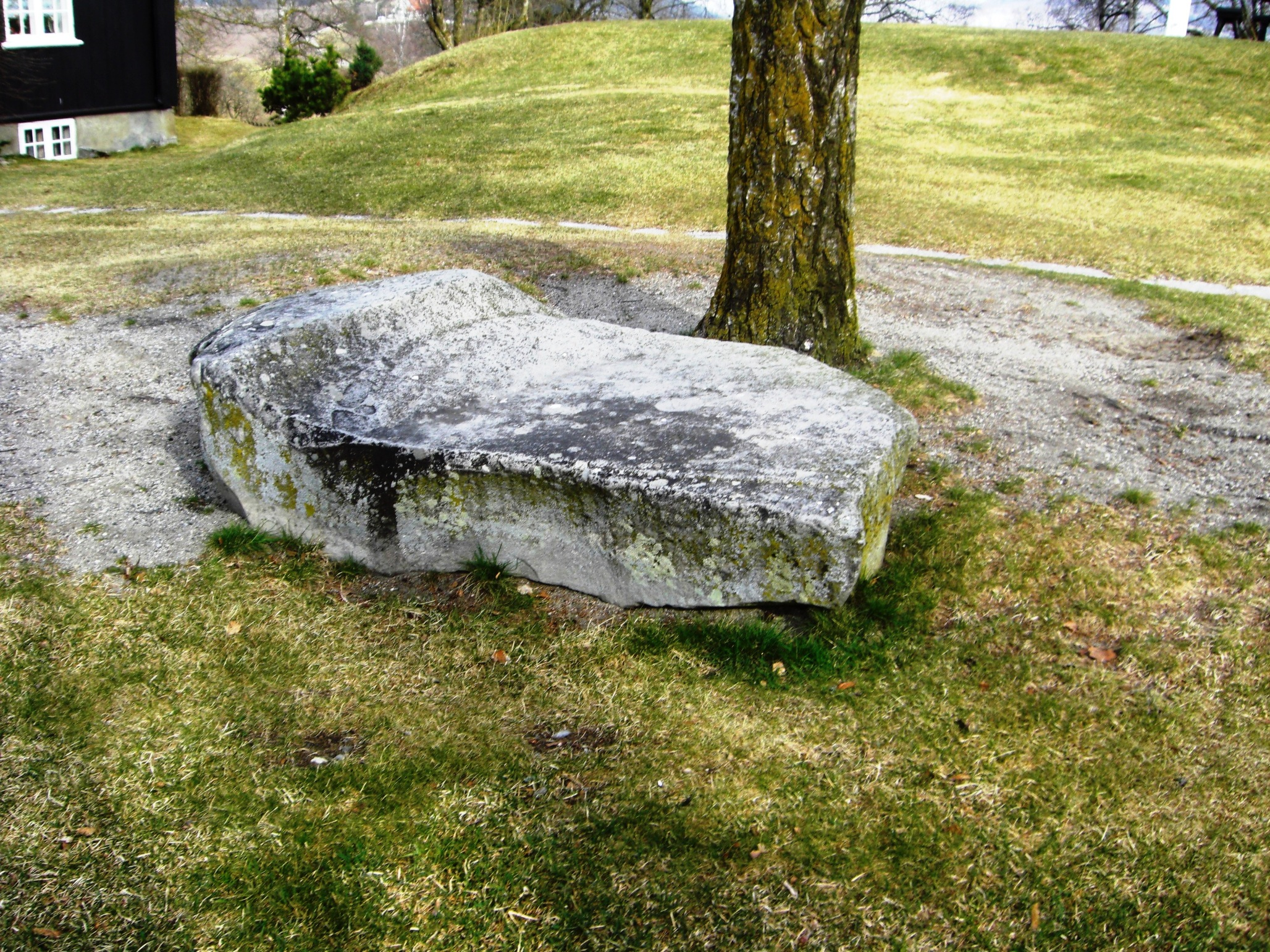 The Dvergsten rock